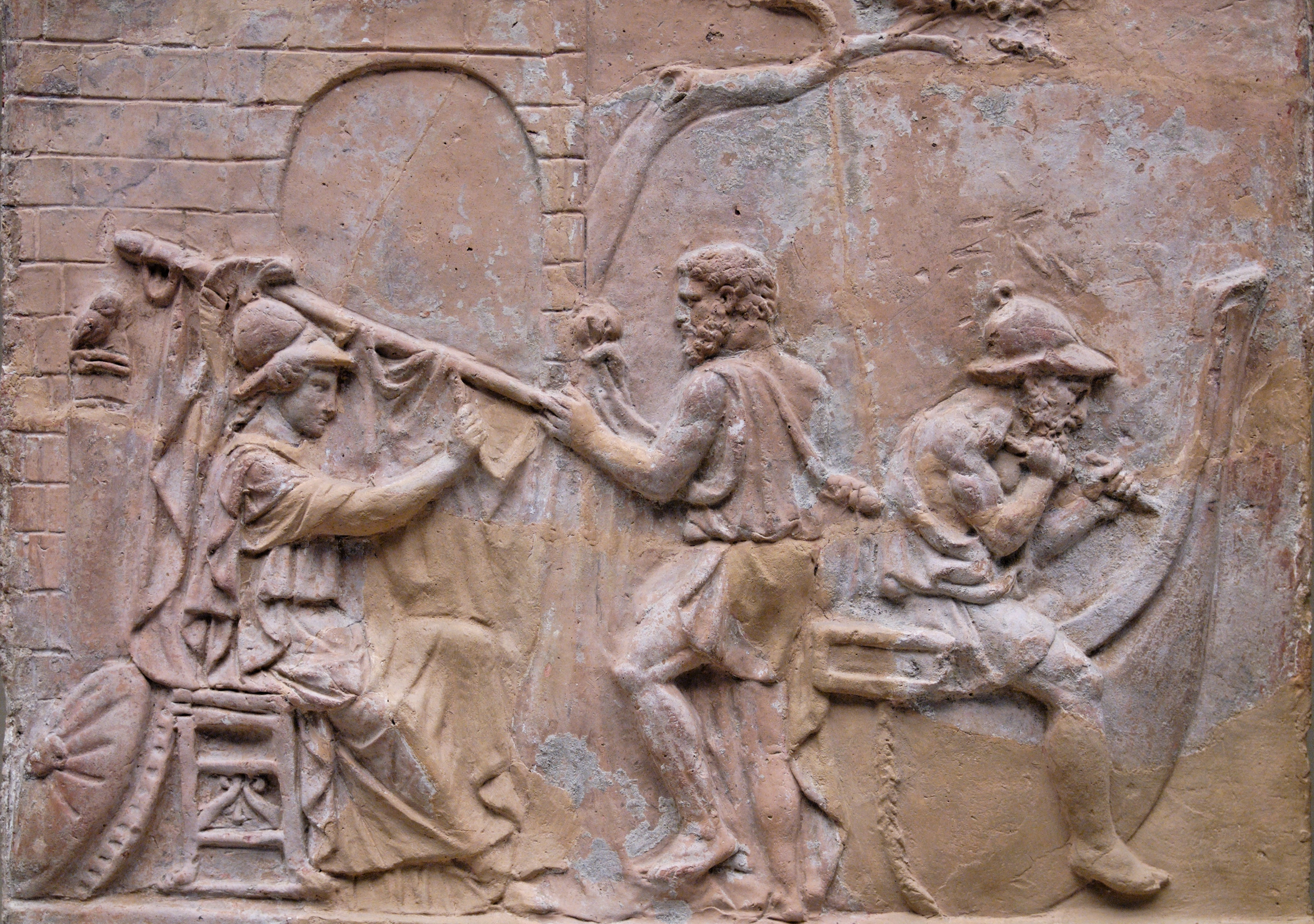 The building of the ship Argo: Athena (on the left) adjusts the sail; Tiphys (centre) holds the yard; Argos (on the right) sits across the stern. Terracotta relief, Roman artwork, probably 1st century AD. Said to have been found near the Porta Latina in Rome.